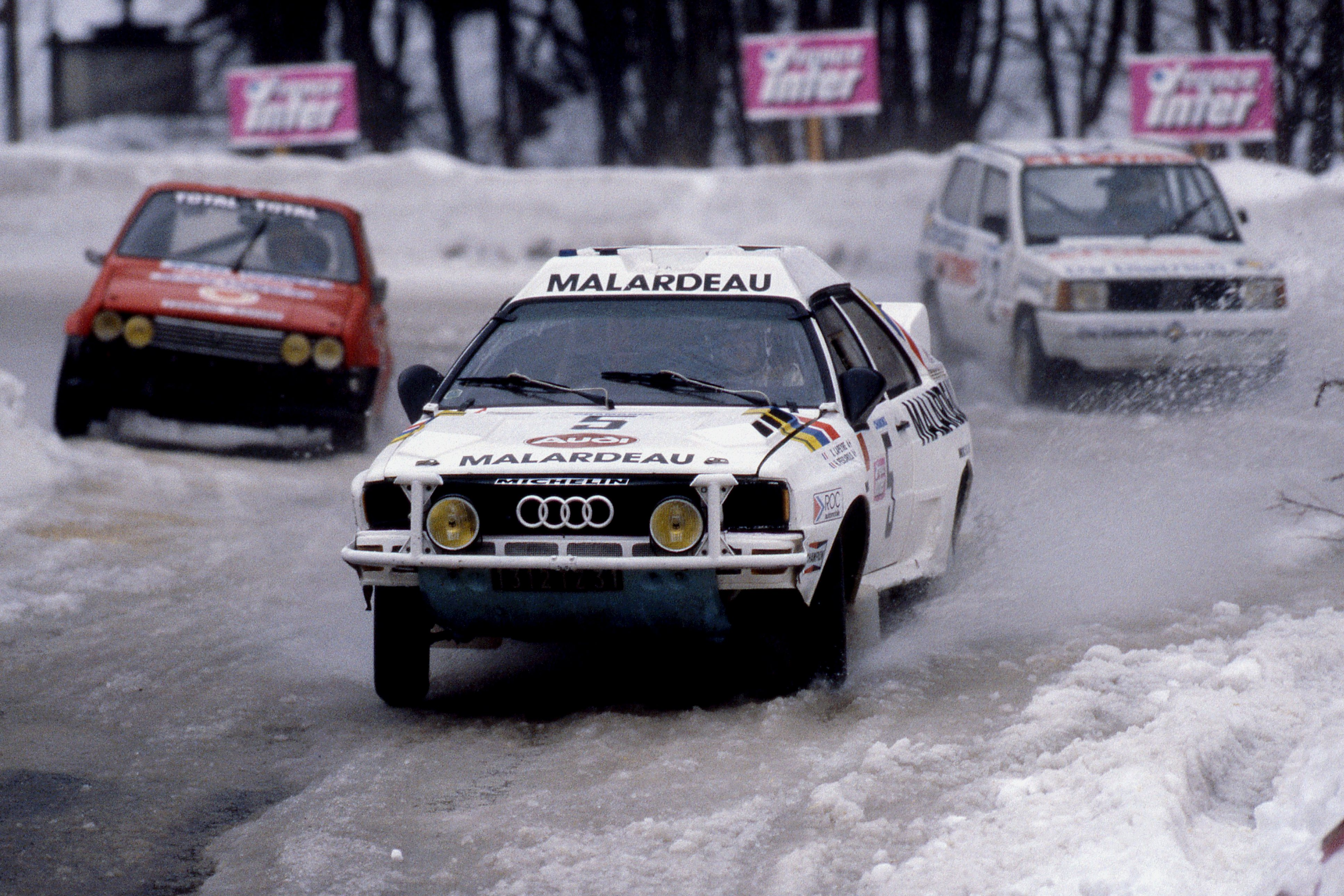 French racer Henri Pescarolo in the ROC Audi quattro (with heightened roof for the Rally Paris–Dakar 1984/85) pictured during the '24h sur Glace de Chamonix' ice-race at the Circuit de Grépon at Chamonix in France. Pescarolo shared the car during the event with compatriot Xavier Lapeyre. Scan of an Ektachrome 200 slide.